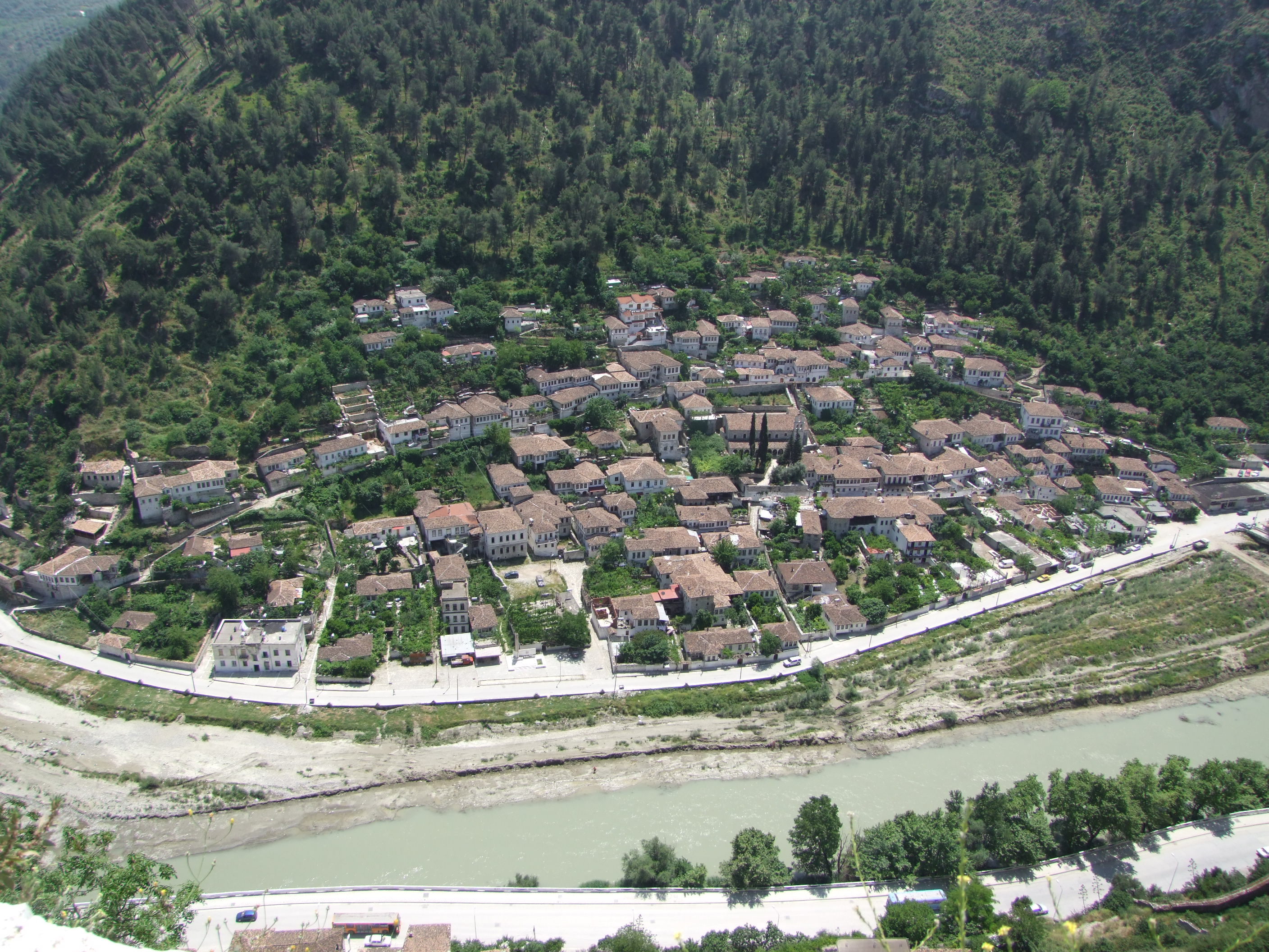 Berat/Albania Gorica View from Kalaja